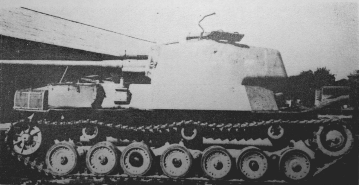 Imperial Japanese Army Type 4 medium tank Chi-To prototypes captured by Americans.